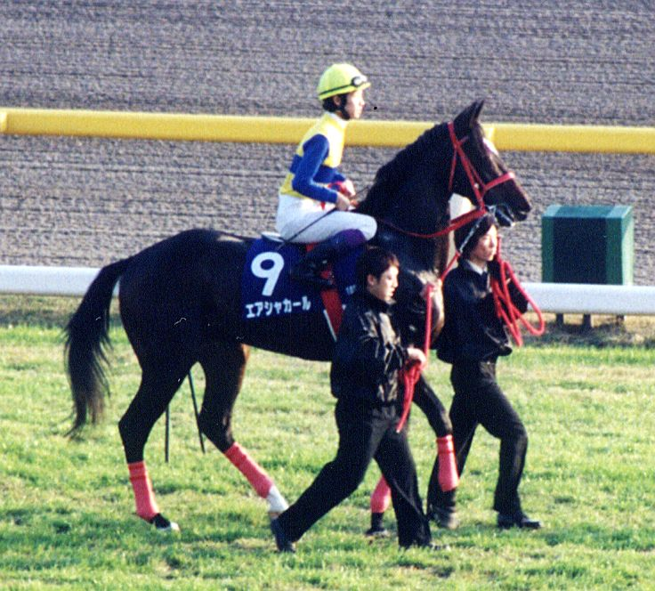 Air Shakur